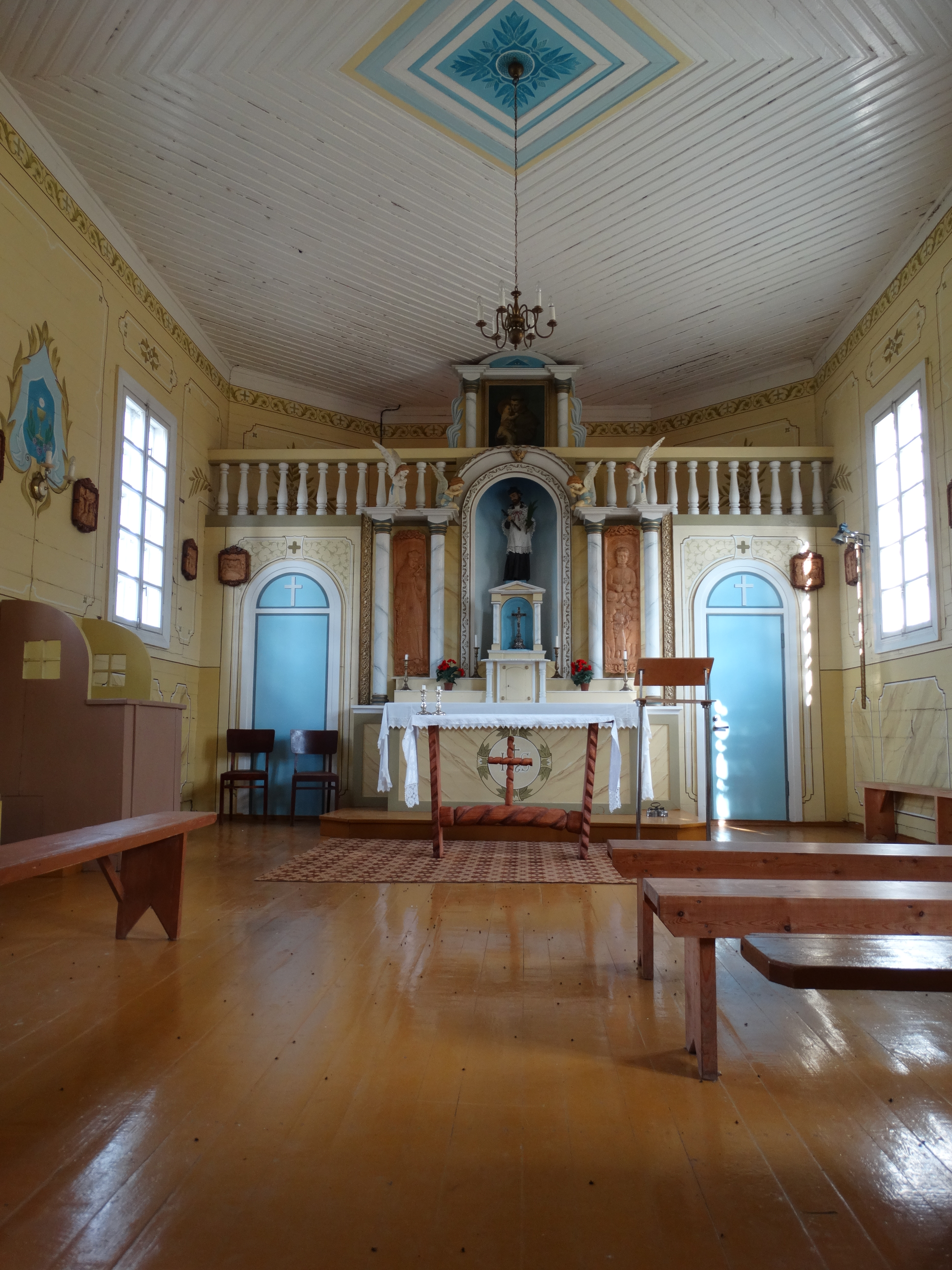 Interior, Saint John of Nepomuk church, Seda, Mažeikiai district, Lithuania